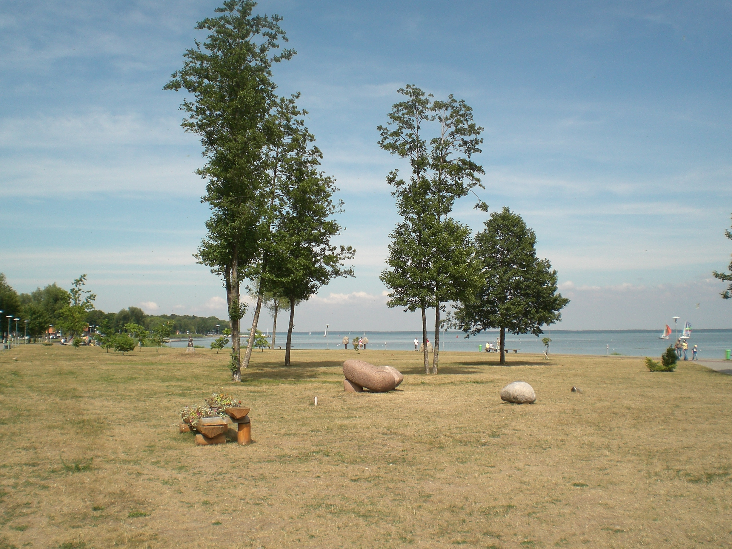 In the Sculpture park "Land and Water" in Juodkrantė, Lithuania